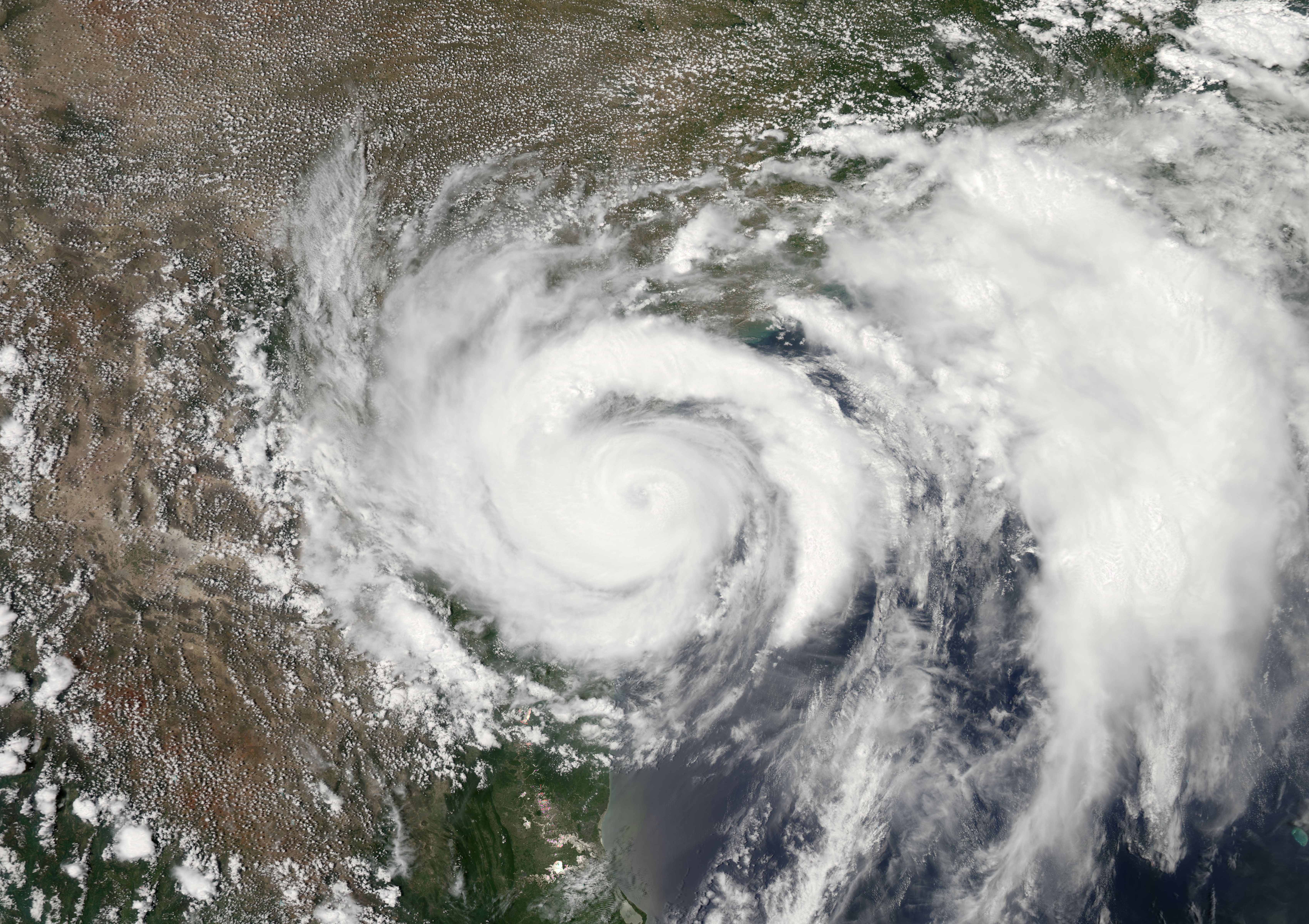 Hurricane Dolly intensified to a Category 2 storm in the Gulf of Mexico on July 23, 2008, just before it bore down on South Padre Island off the South Texas coast. At its strongest, the storm’s winds reached sustained speeds of 100 miles per hour, with higher gusts. As of the 2:00 p.m. (Central Daylight Time) advisory from the National Hurricane Center, Dolly had weakened to a Category 1 storm because part of the circulation was over land; winds were about 95 miles per hour.